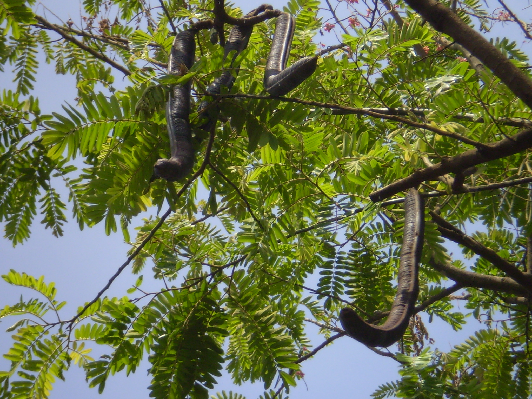 Leaves and fruits of Cassia grandis